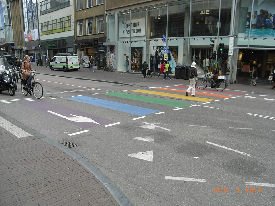 Rainbow pedestrian crossing in Utrecht, Netherlands